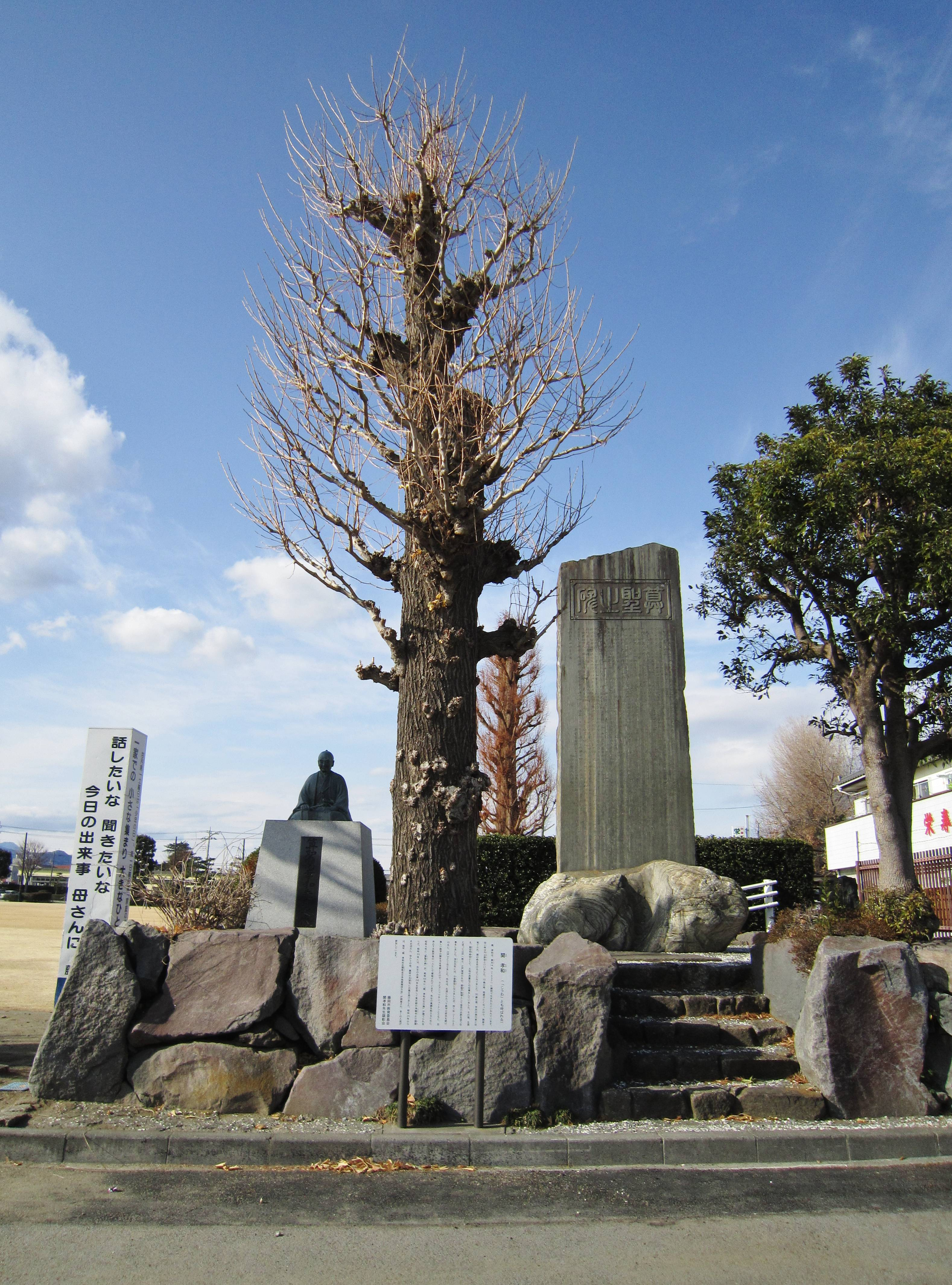 Seki Takakazu monument.